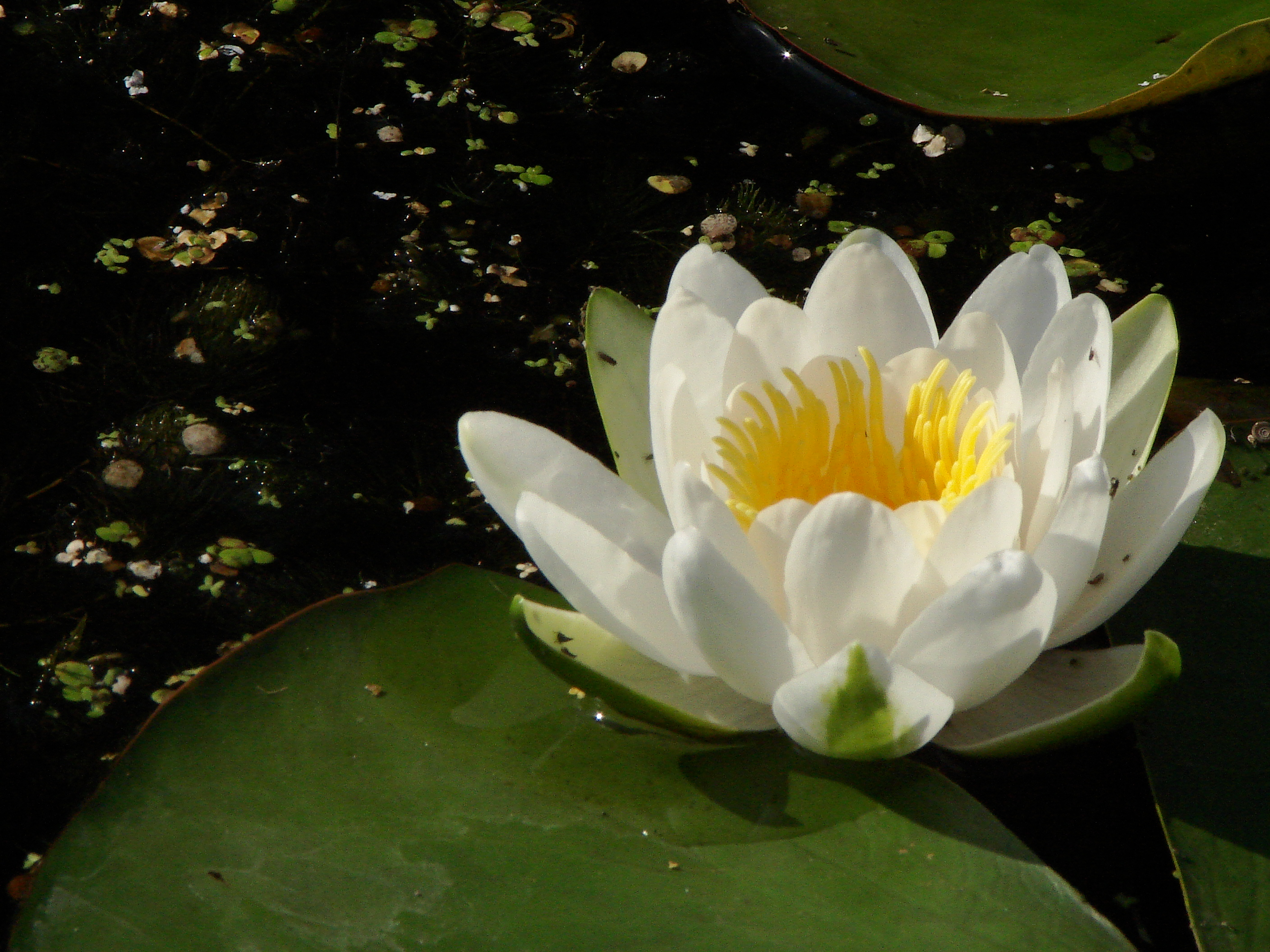 Nymphaea alba from the estuary of the Zala river